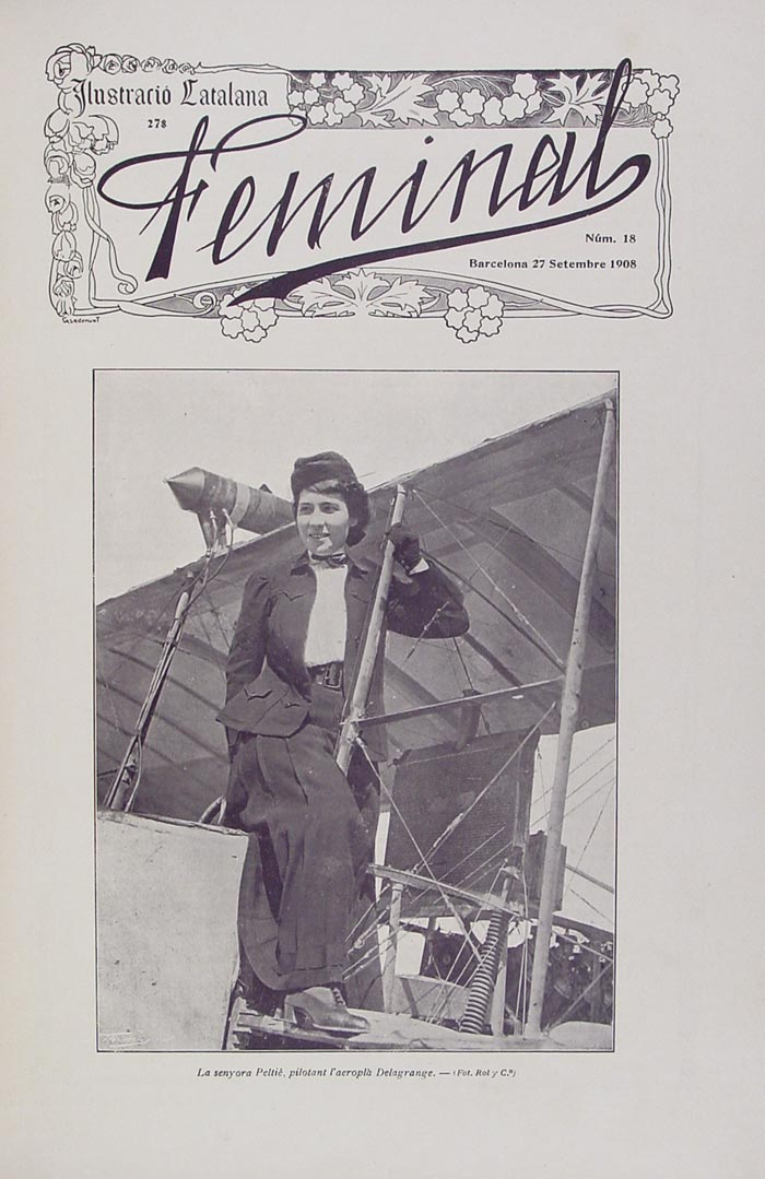 Feminist catalan magazine